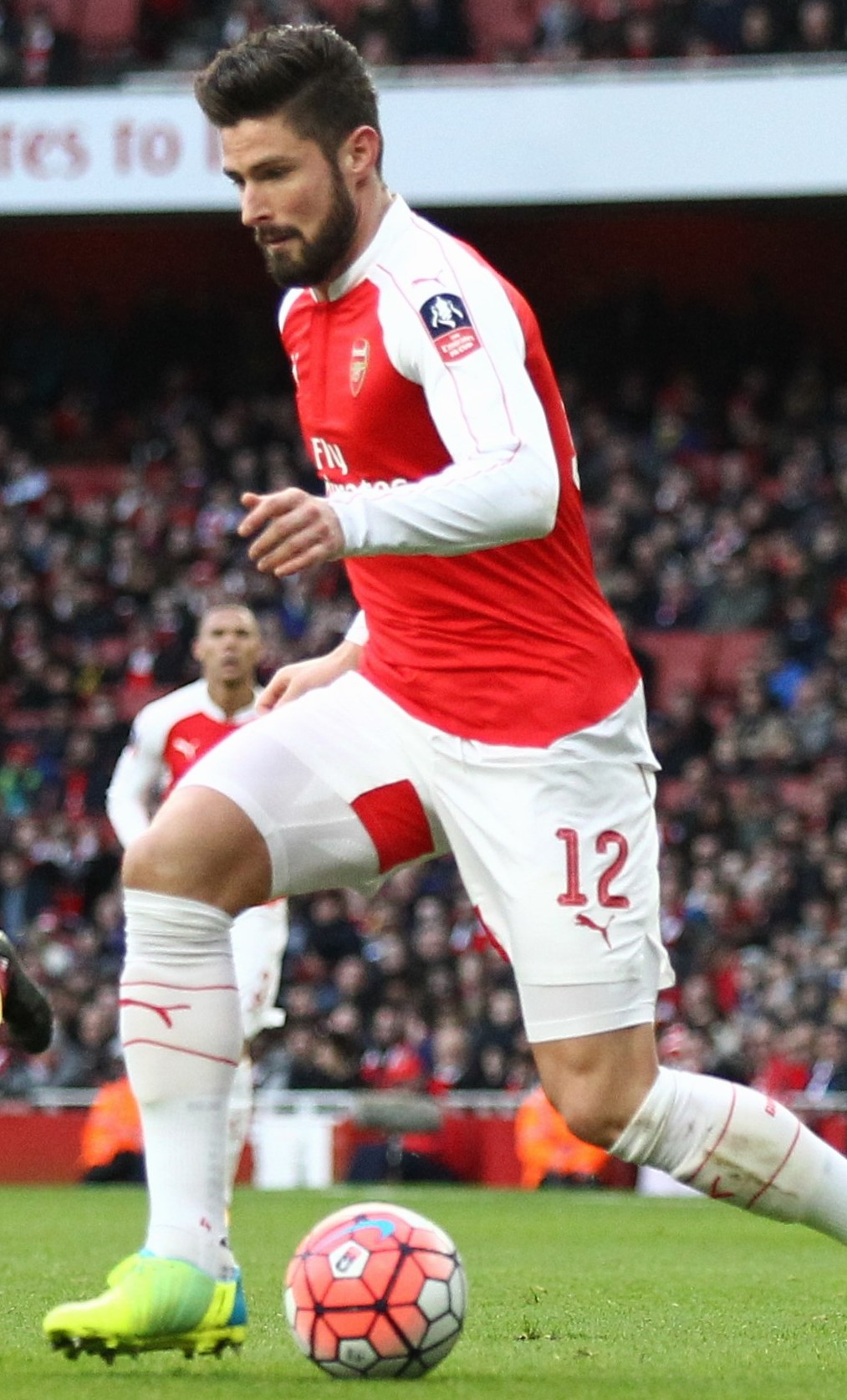 Olivier Giroud of Arsenal on the ball during the game against Burnley.